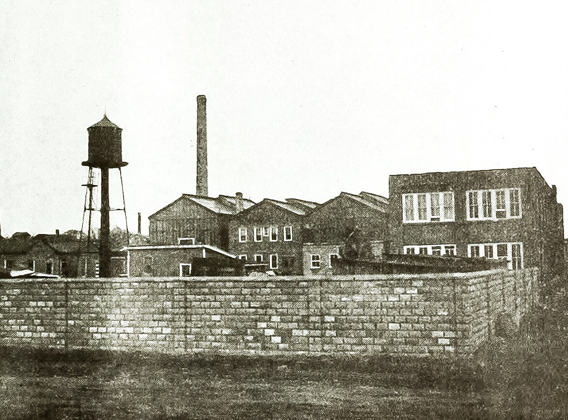 Photograph captioned "The New Vitagraph Plant, Brooklyn [New York]", published in The Nickelodeon, January 7, 1911, p. 9; an illustration in an article titled "The Vitagraph Plant and Personnel"; Vitagraph's plant was located in the Midwood neighborhood of Brooklyn; the area enclosed by the high concrete-block wall comprised the plant's "studio yard", where elaborate outdoor sets were constructed for productions such as Lady Godiva, which was filmed there later in 1911.